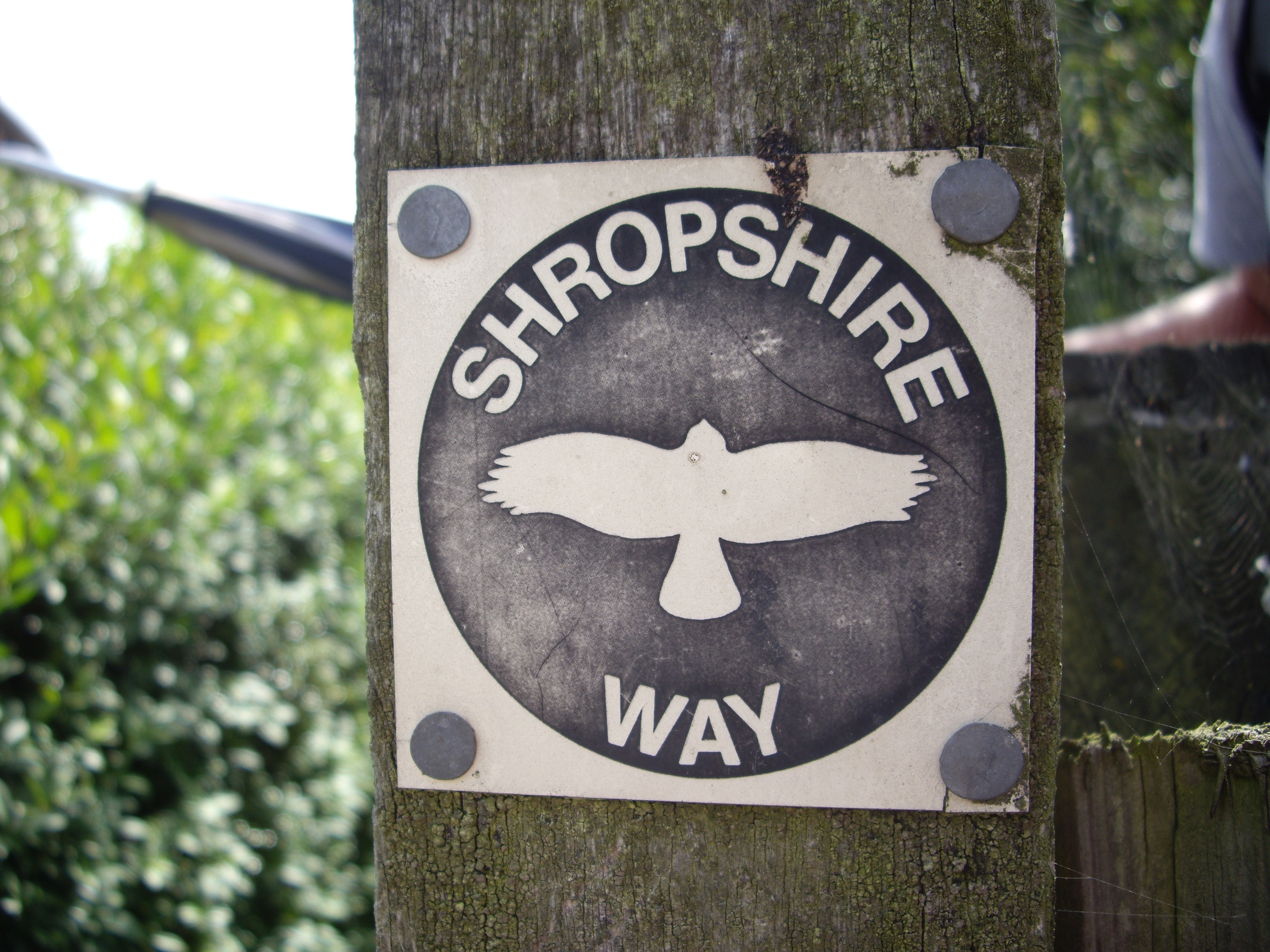 Author and Source: G.Brawn